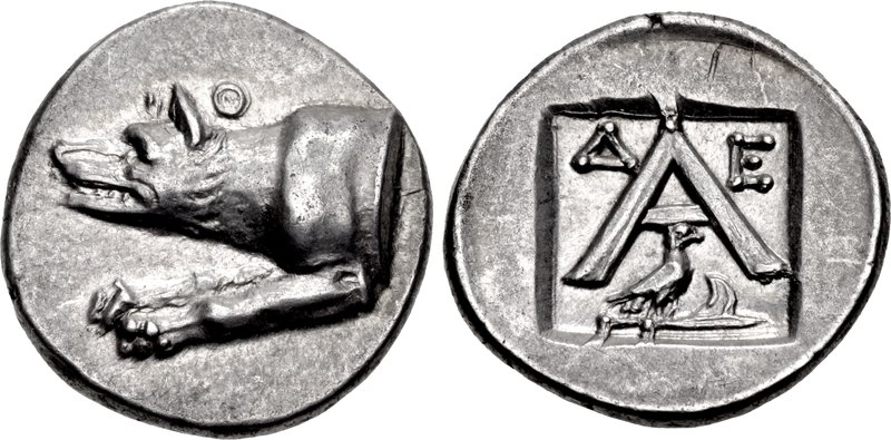 ARGOLIS, Argos. Circa 270-260/50 BC. AR Triobol (15mm, 2.52 g, 5h). Forepart of wolf at bay left; Θ above / Large A; Δ-E across upper field; below, eagle standing right on harpa right; all within incuse square. BCD Peloponnesos 1109–10; HGC 5, 670. Superb EF, fully lustrous. Perfectly centered and struck. Ex Roma X (27 September 2015), lot 264.